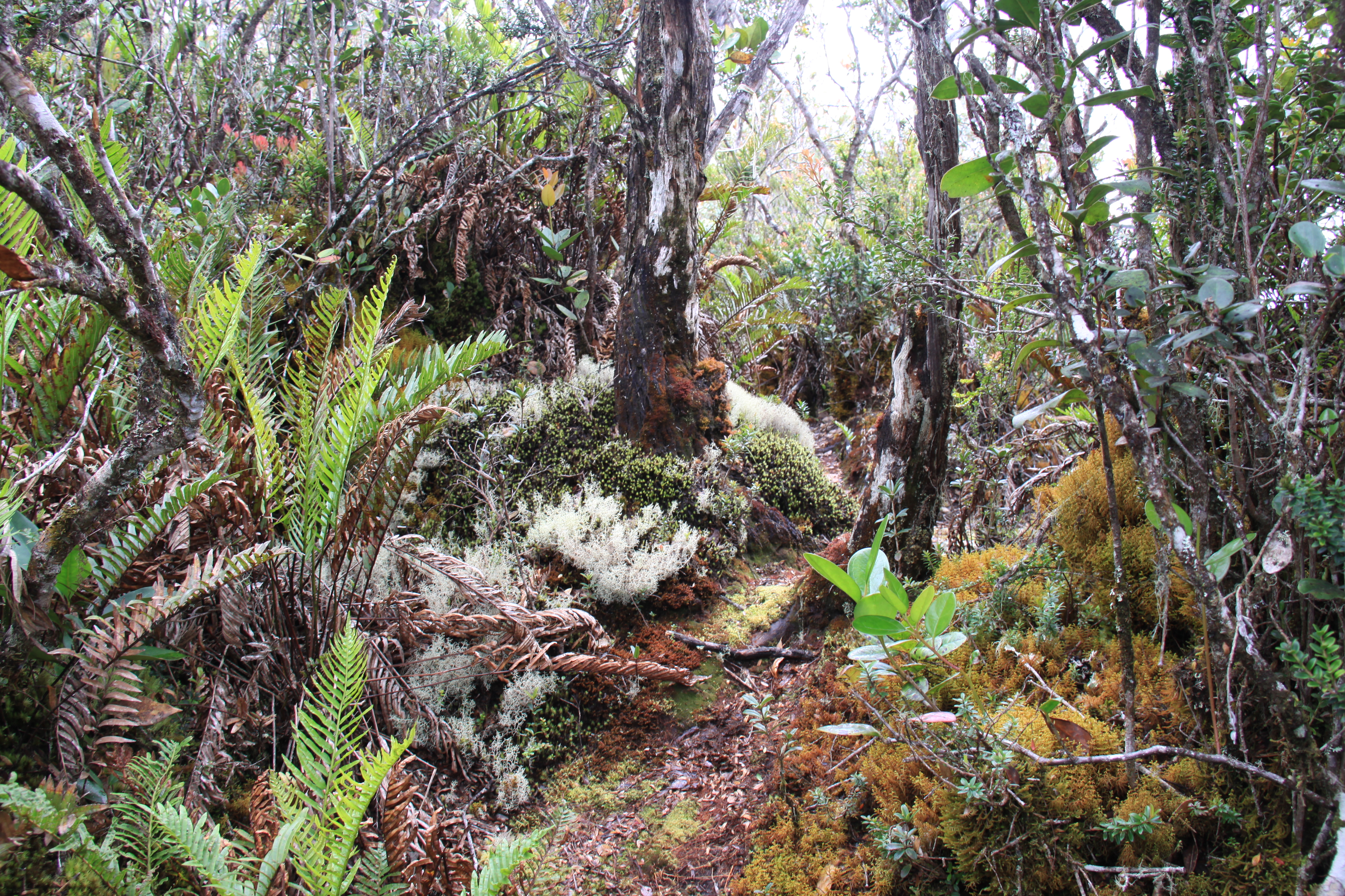 Elfin forest (montane, tropical) Indonesia, N-Sumatra, Aceh: Mt. Leuser NP (E-slope of Mt. Kemiri), ca. 2700-3000m asl., 16.04.2009